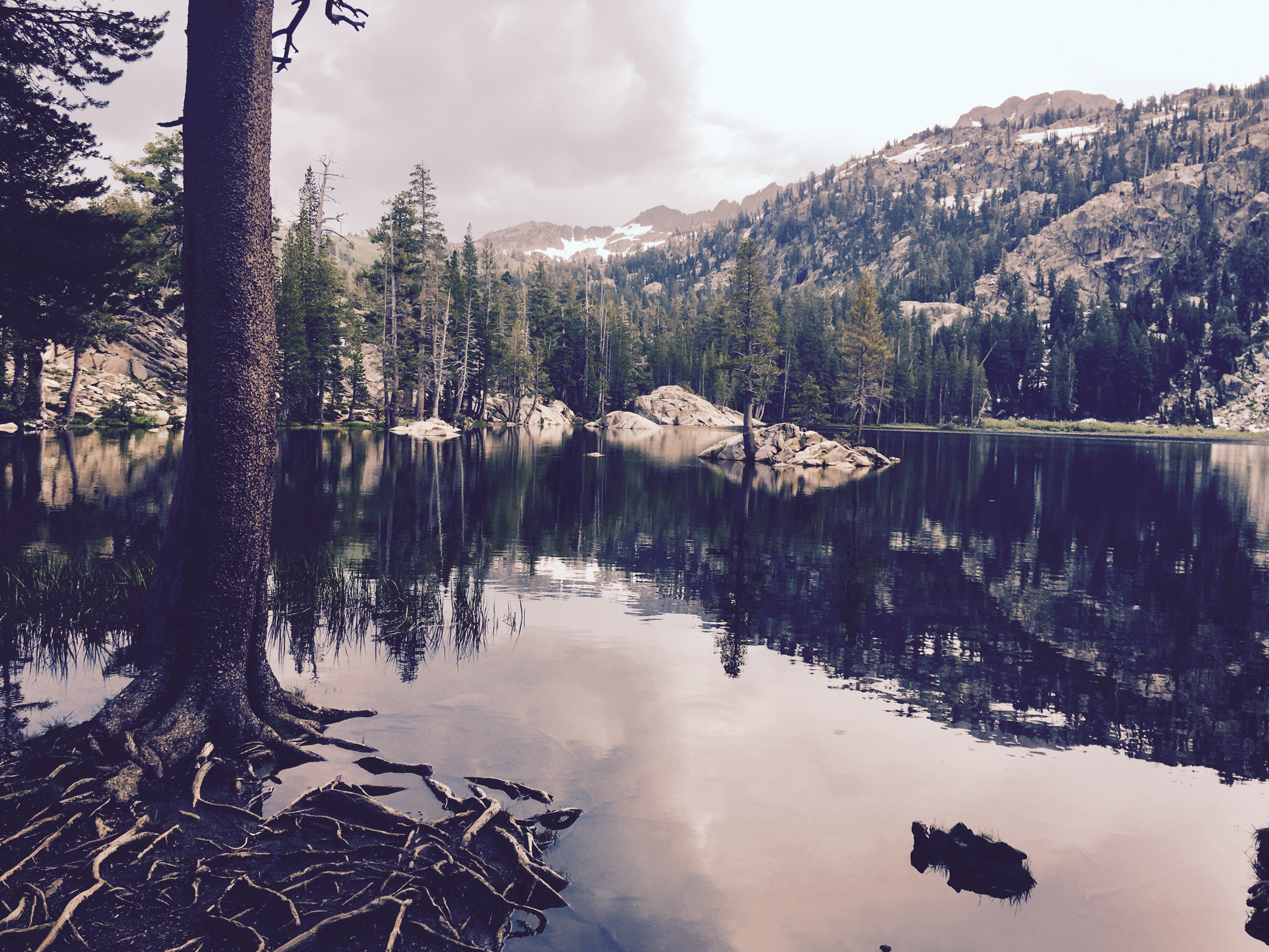 Woods Lake in the Eldorado National Forest, Sierra Nevada Mountain Range, California, USA